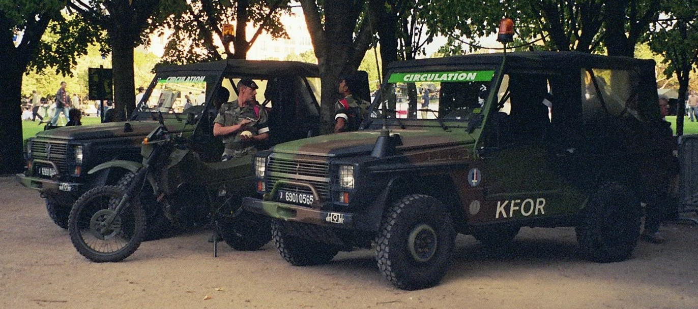 Nation/Defense days, Esplanade des Invalides, Paris, France, September 24-25, 2005